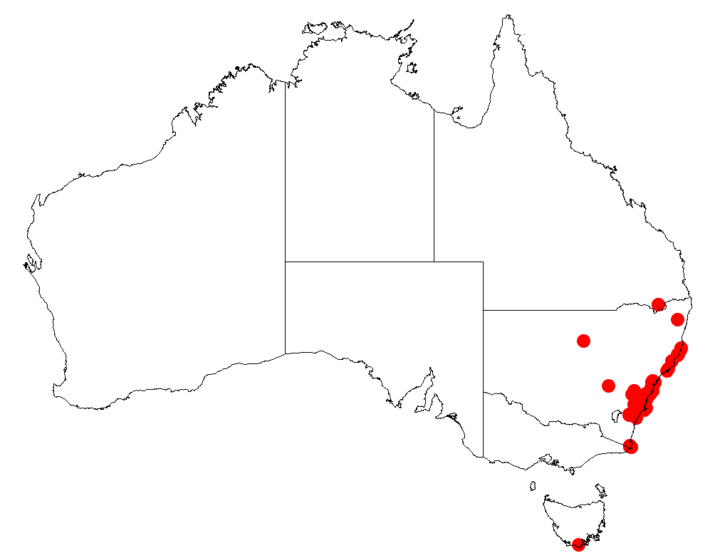 Symphionema paludosum Occurrence data downloaded from Australasian Virtual Herbarium on 30 October 2018 from